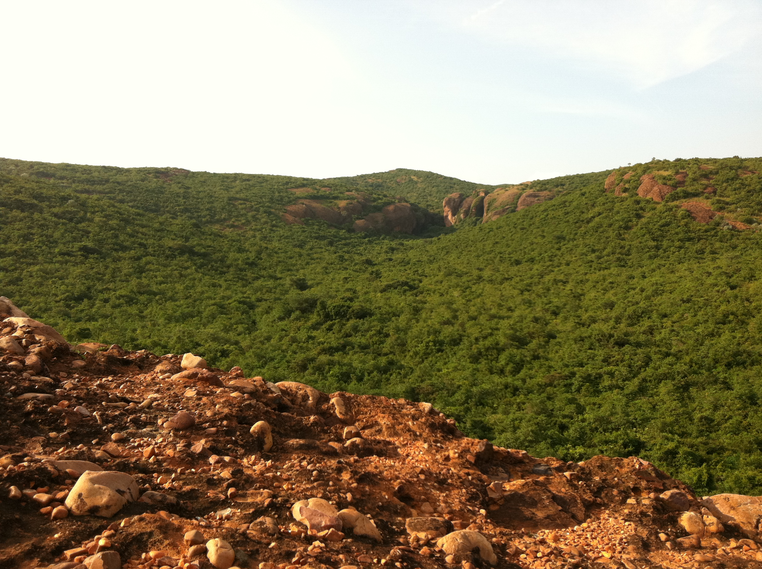 Gudiyam cave in allikuzi hill ranges